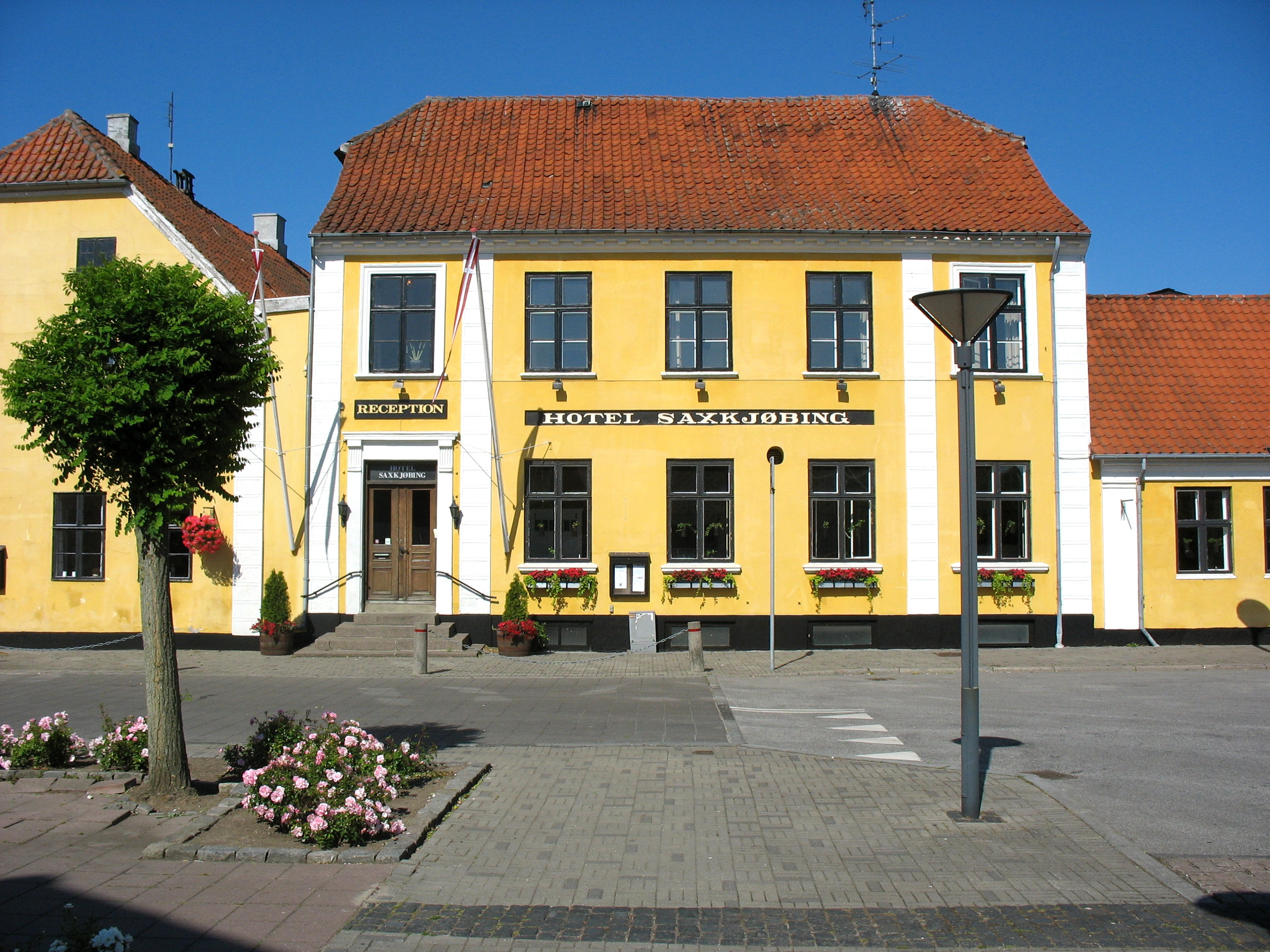 "Hotel Saxkjøbing" in the small town "Sakskøbing" located on the island Lolland in east Denmark.